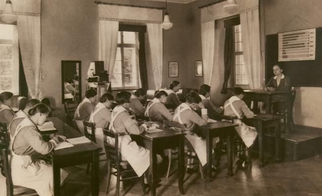 Reifensteiner Schule Unterrichtsraum Beinrode 1930